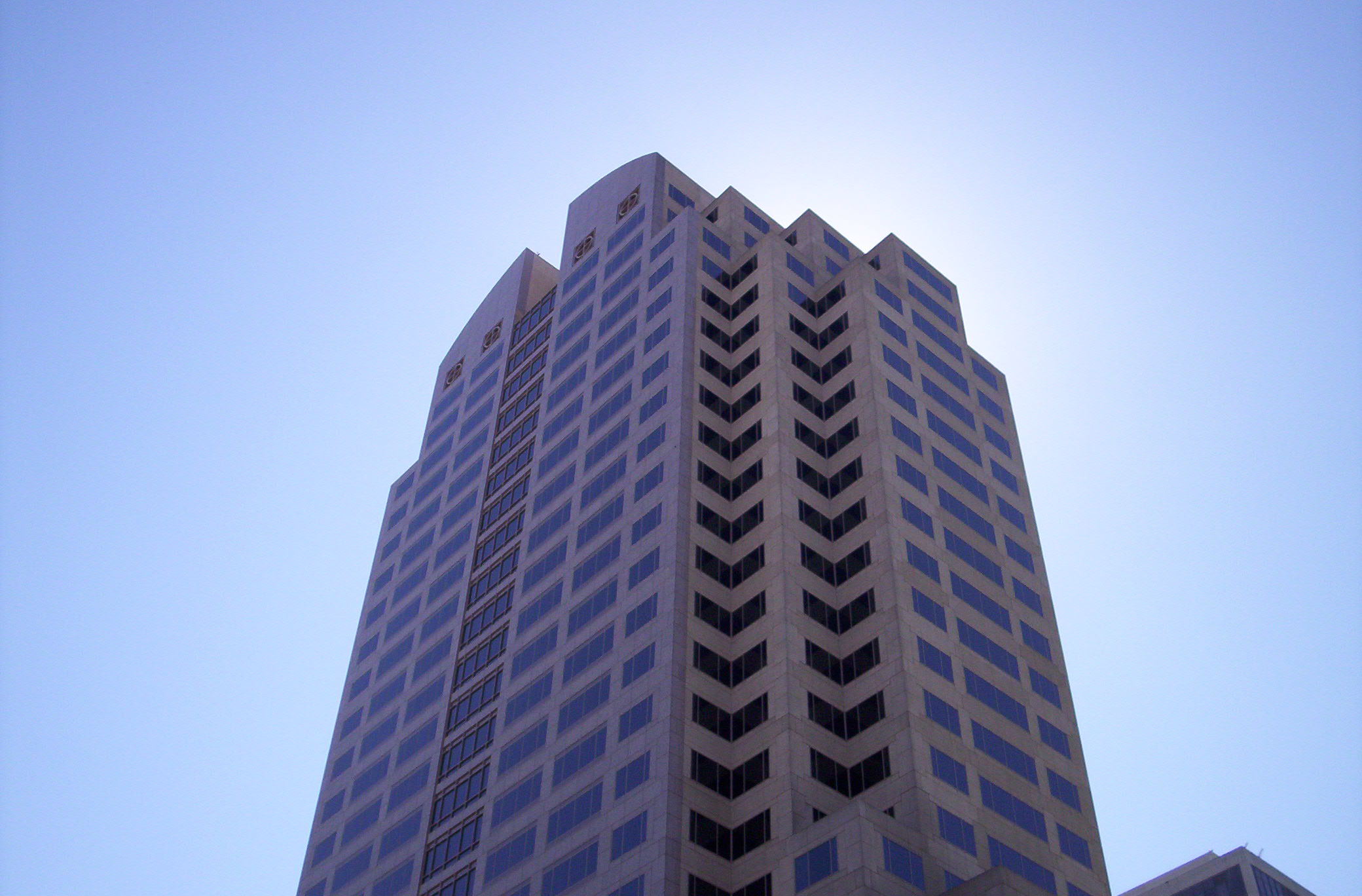 Wells Fargo Tower Sacramento